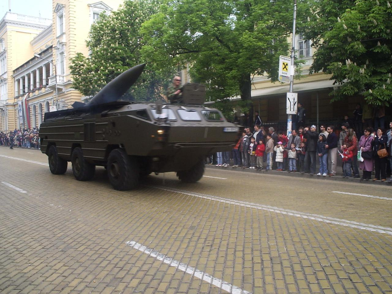 An SS-21 Scarab-A missile on parade in Sofia.